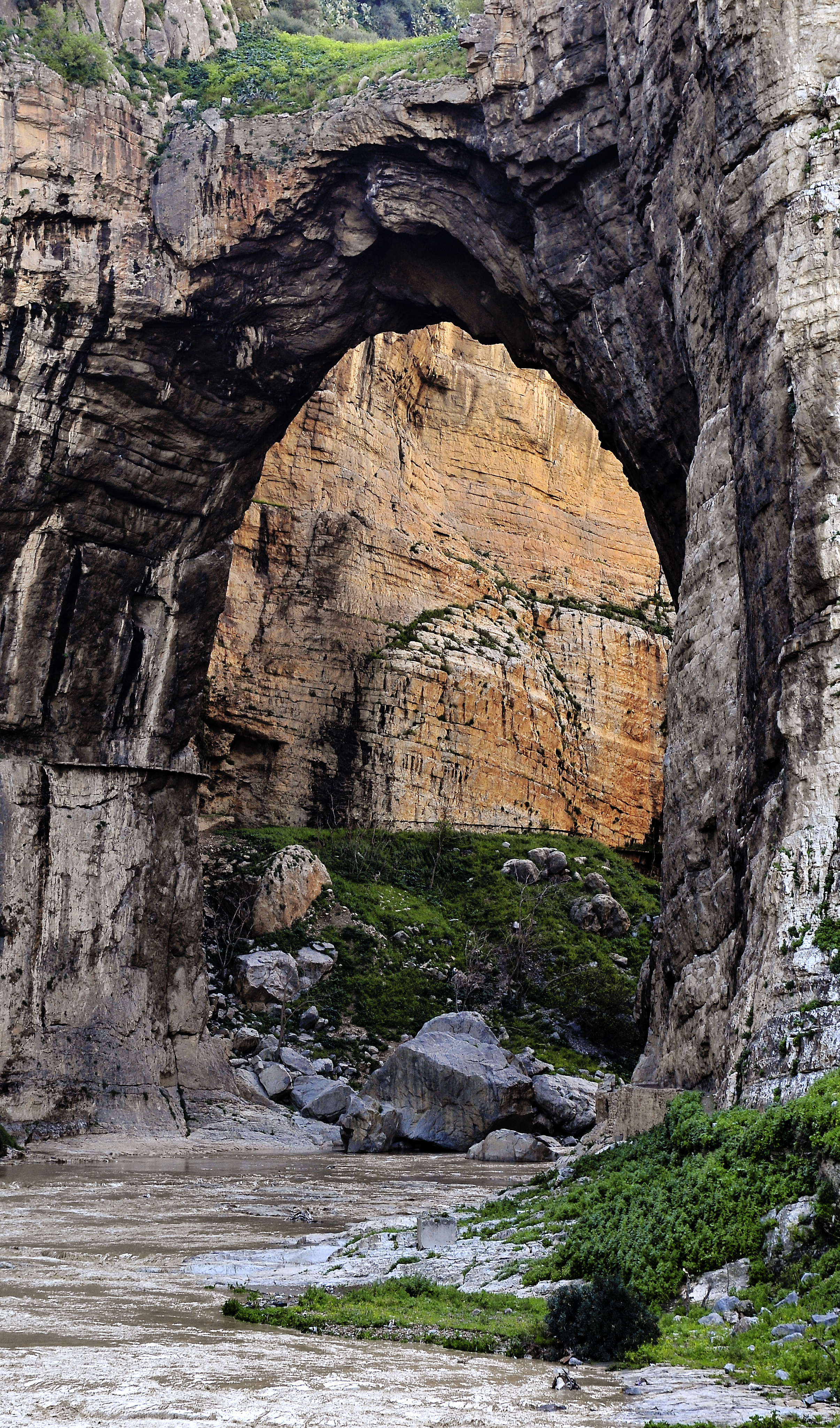 Natural bridge over the Rhummel River. Constantine, Algeria